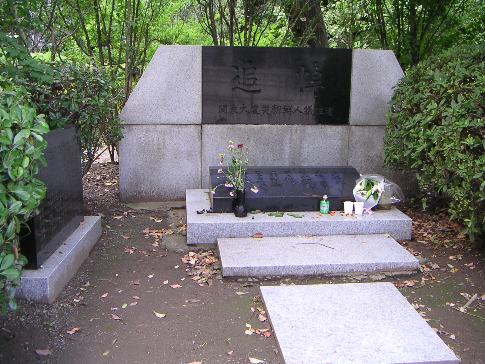 Kanto Daishinsai Chosenjin Giseisya Tsuitoh Hi at Yokoamicho Park in Sumida,Tokyo